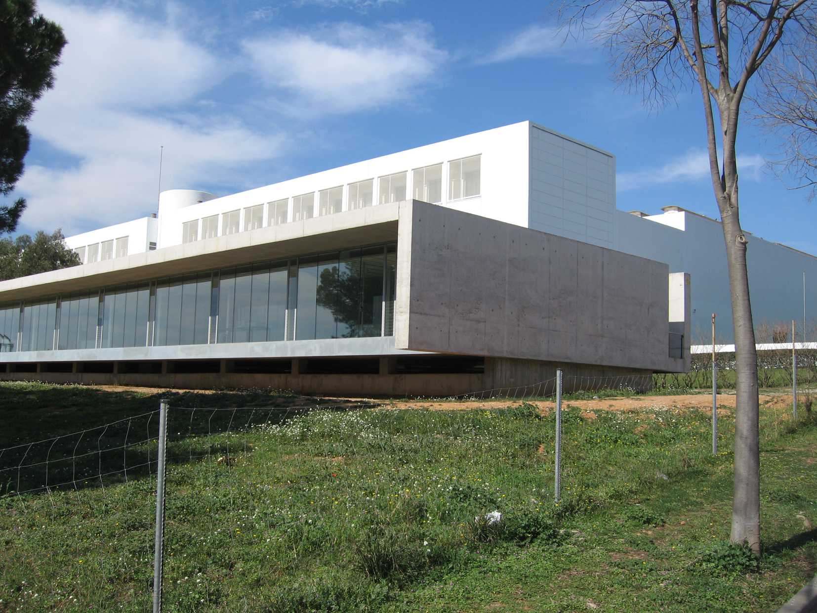 Escola d’Arquitectura in Sant Cugat del Vallès (Catalonia).